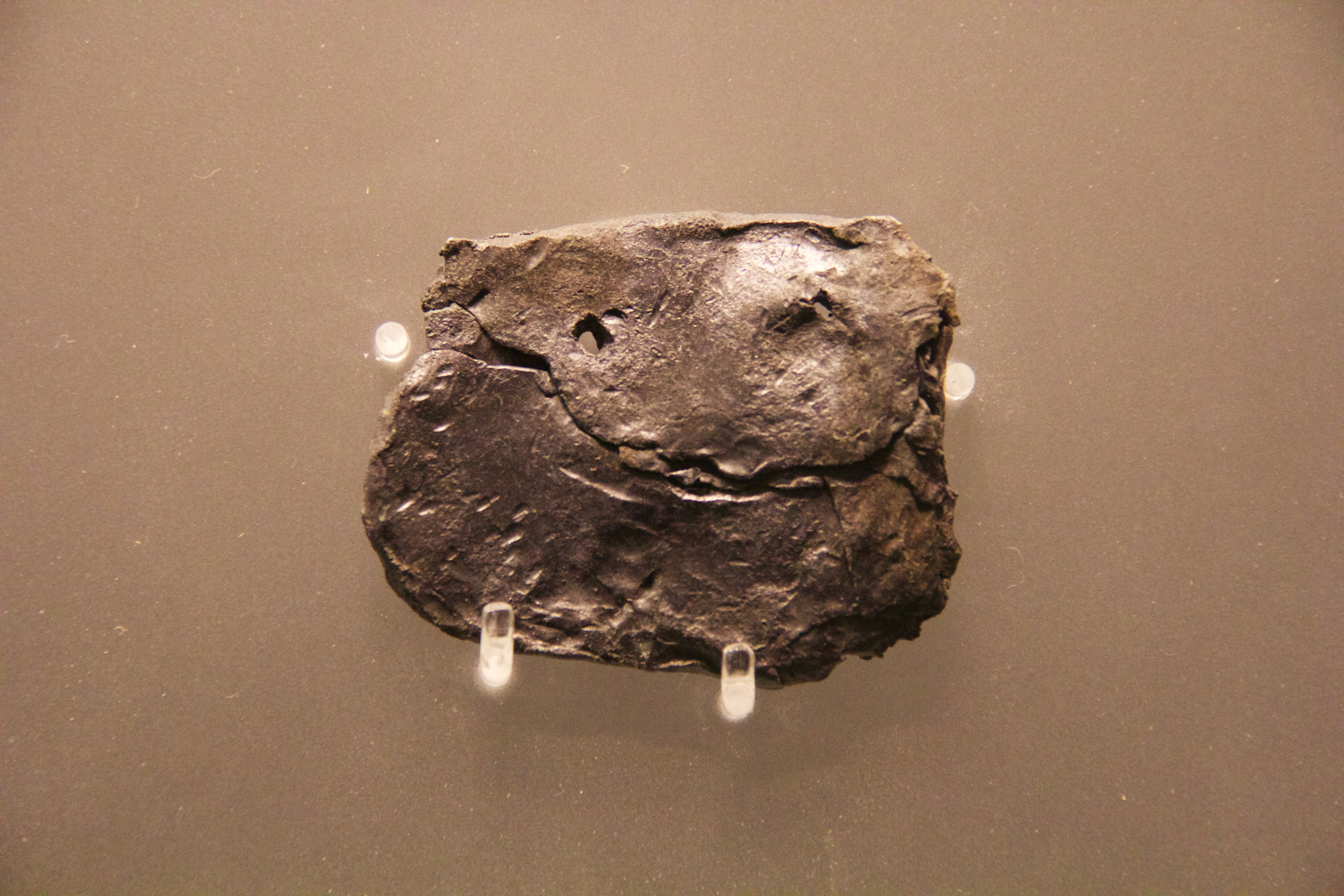 "The Roman curse tablets from Bath Britain's earliest prayers. These tablets are inscribed on the UNESCO Memory of the World register of significant documentary heritage. They are the only documents from Roman Britain on that list. Folded curse. Before they were thrown into the Sacred Spring curses were rolled or folded." From the Temple Courtyard. Roman baths, Bath, UK